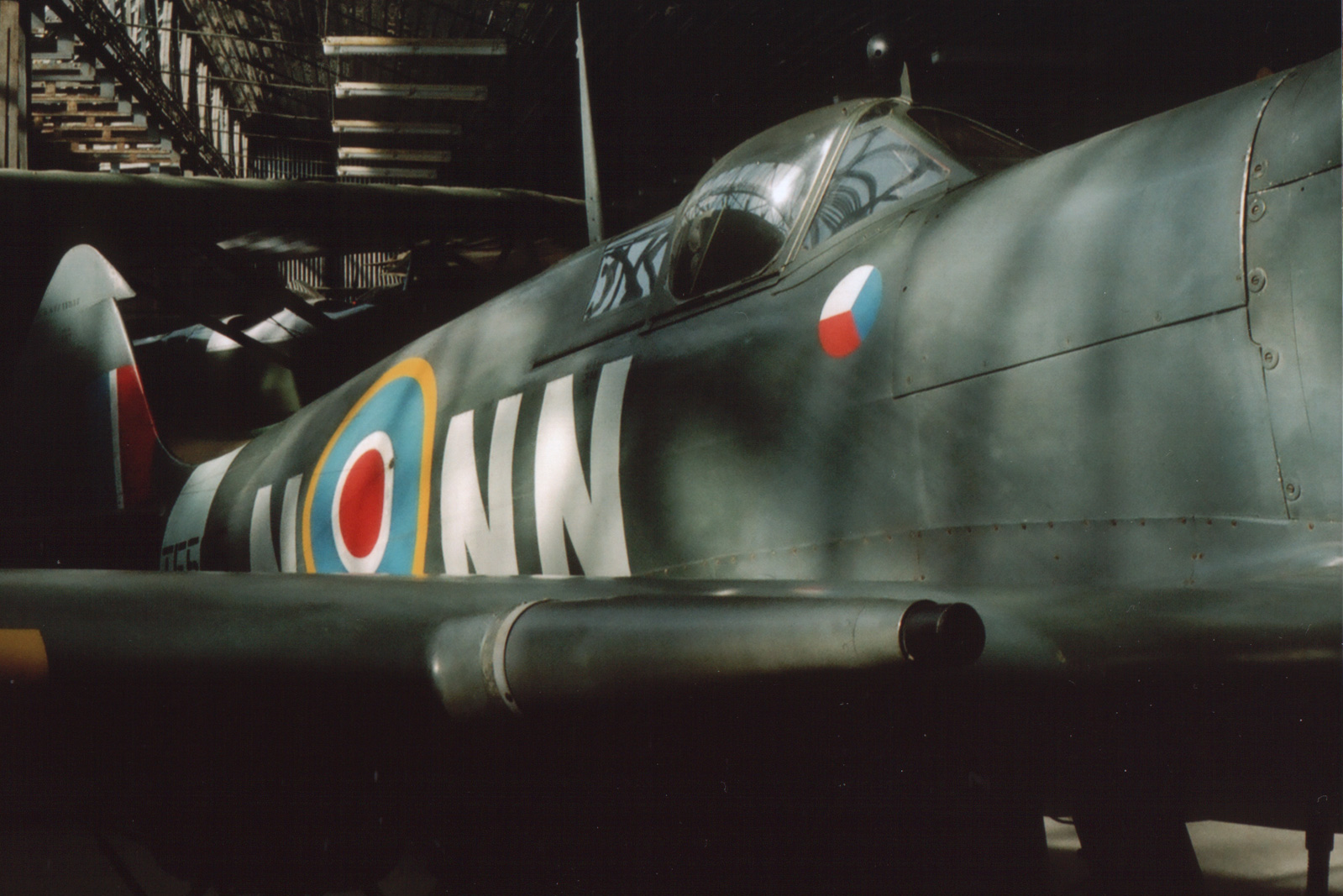 Supermarine Spitfire Mk.IX, Aviation Museum Prague Kbely, marking of No. 310 Squadron RAF. The airplane is currently on display in National Technical Museum in Prague.